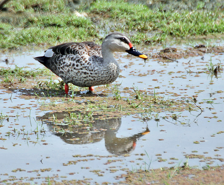 Spot-billed Duck (Anas poecilorhyncha) at Keoladeo National Park, Bharatpur, Rajasthan, India.